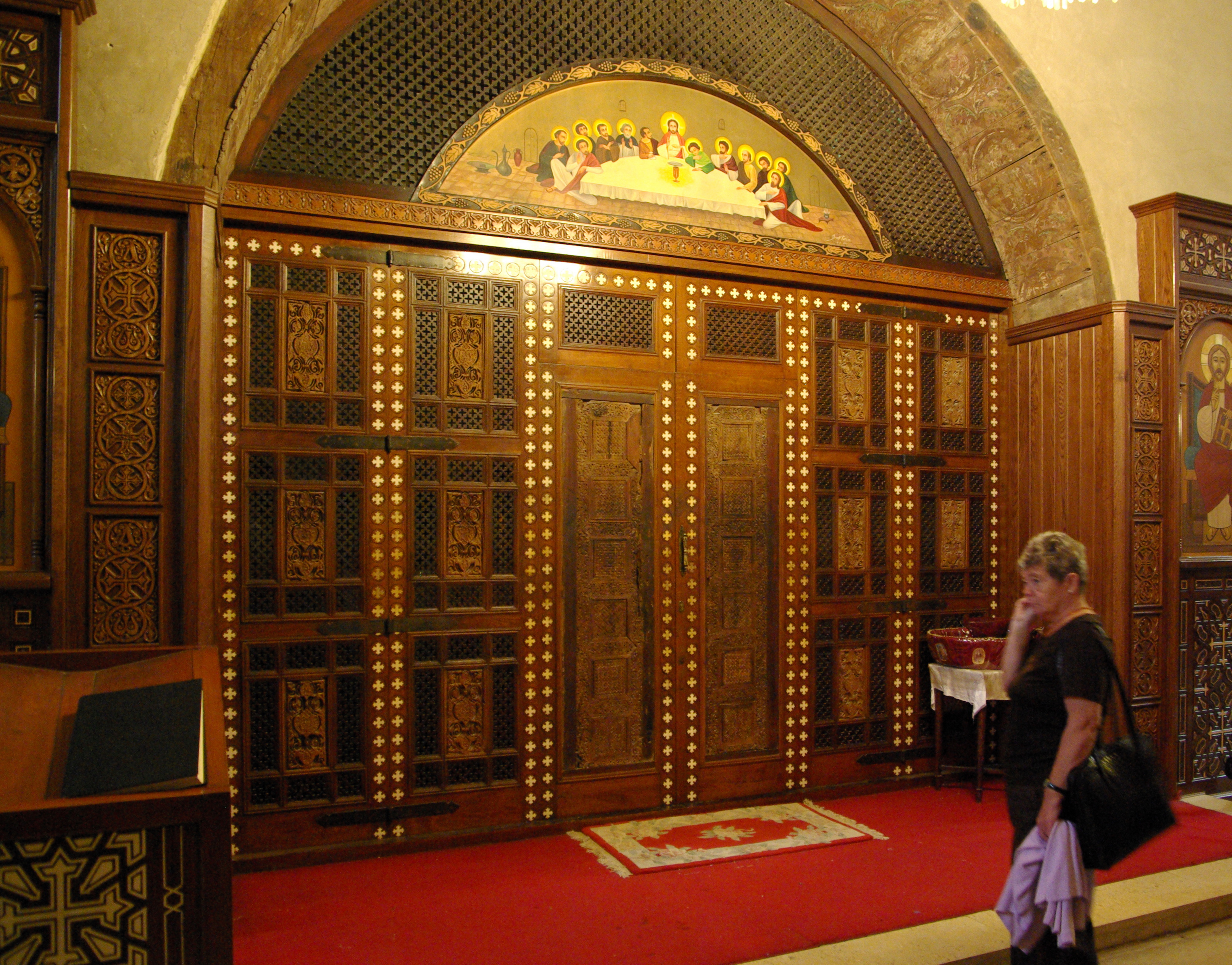 Monastery of Saint Macarius the Great, Wadi Natrun